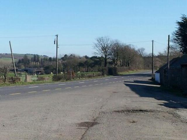 Location- the road now N71